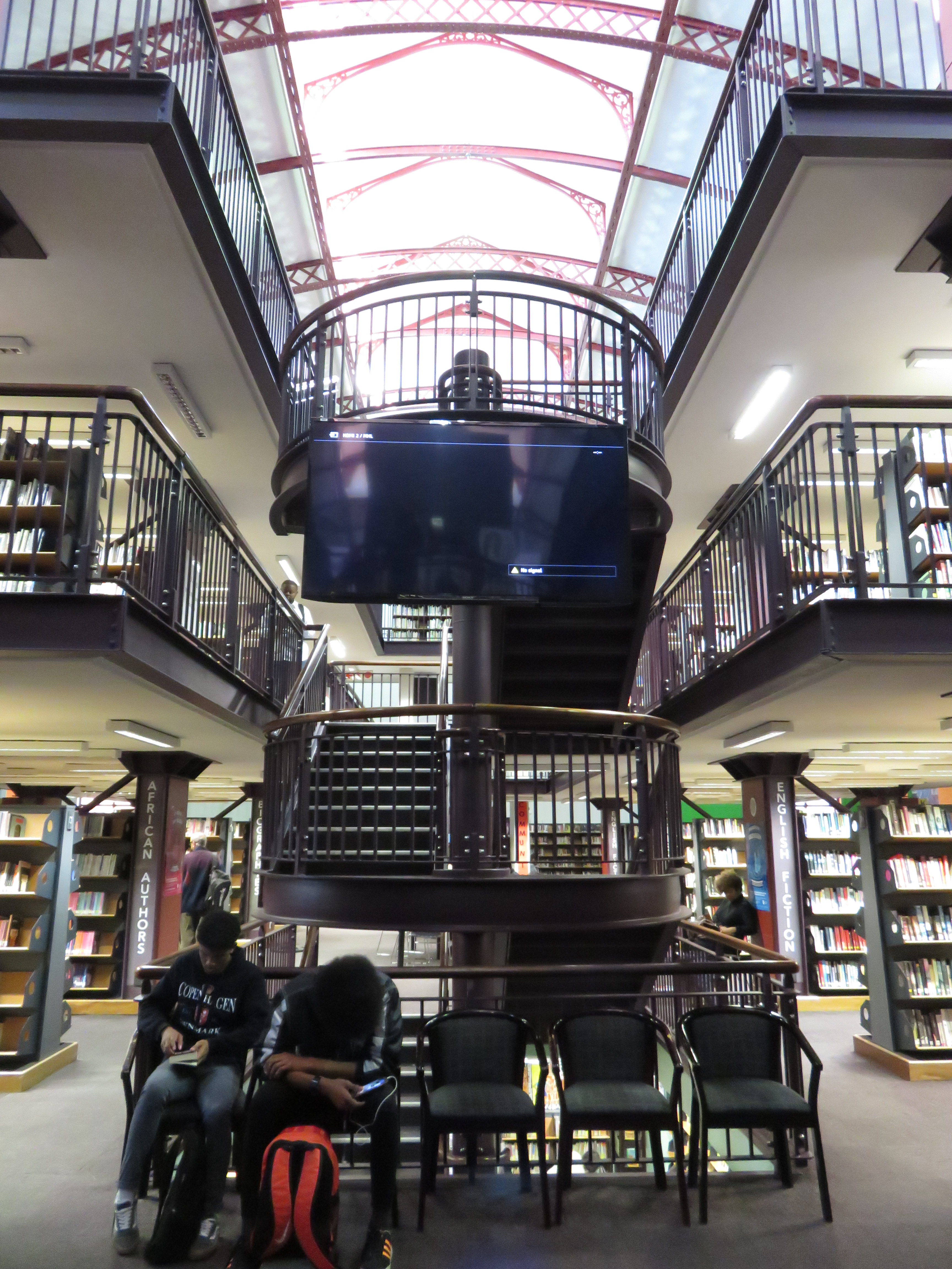 Interior of Central Library Cape Town in Cape Town, South Africa in 2018